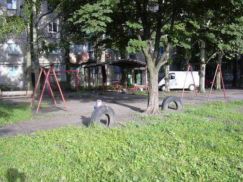 On the street at Miners' City block 7, Shakhtarsk, Donetsk Oblast, Ukraine.